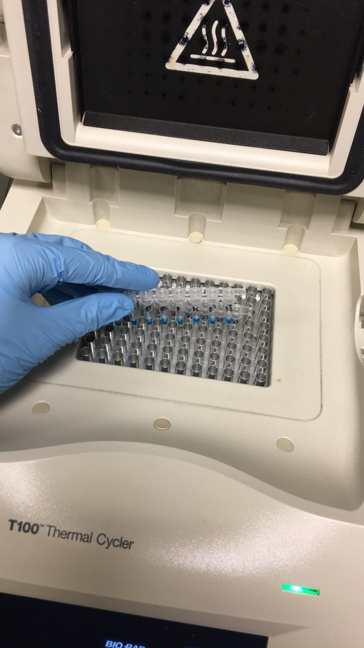 PCR and thermocycler